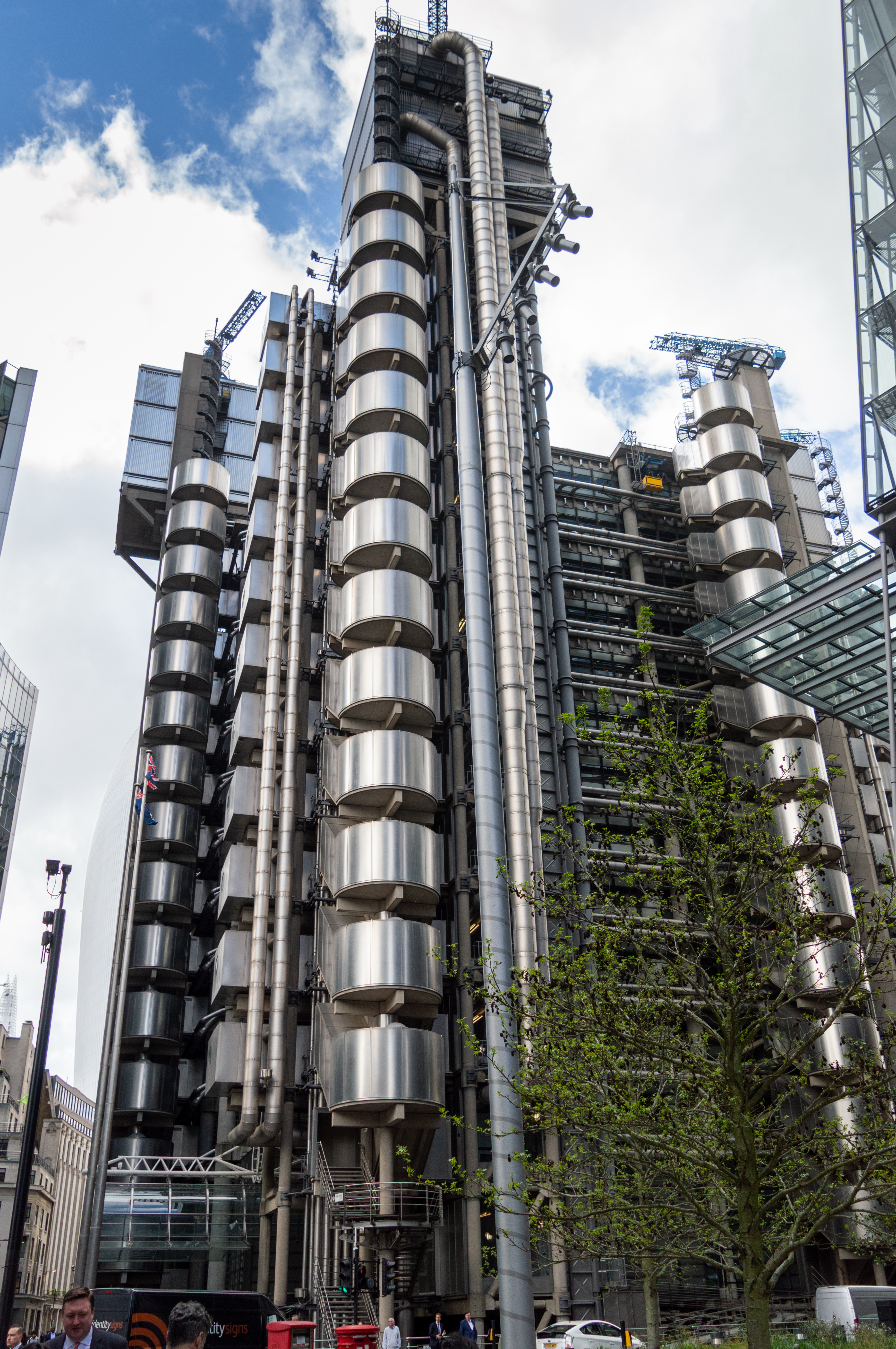 Lloyd's Building in the City of London, seen from St Helen's Square.